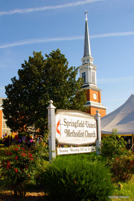 A picture of Springfield United Methodist Church